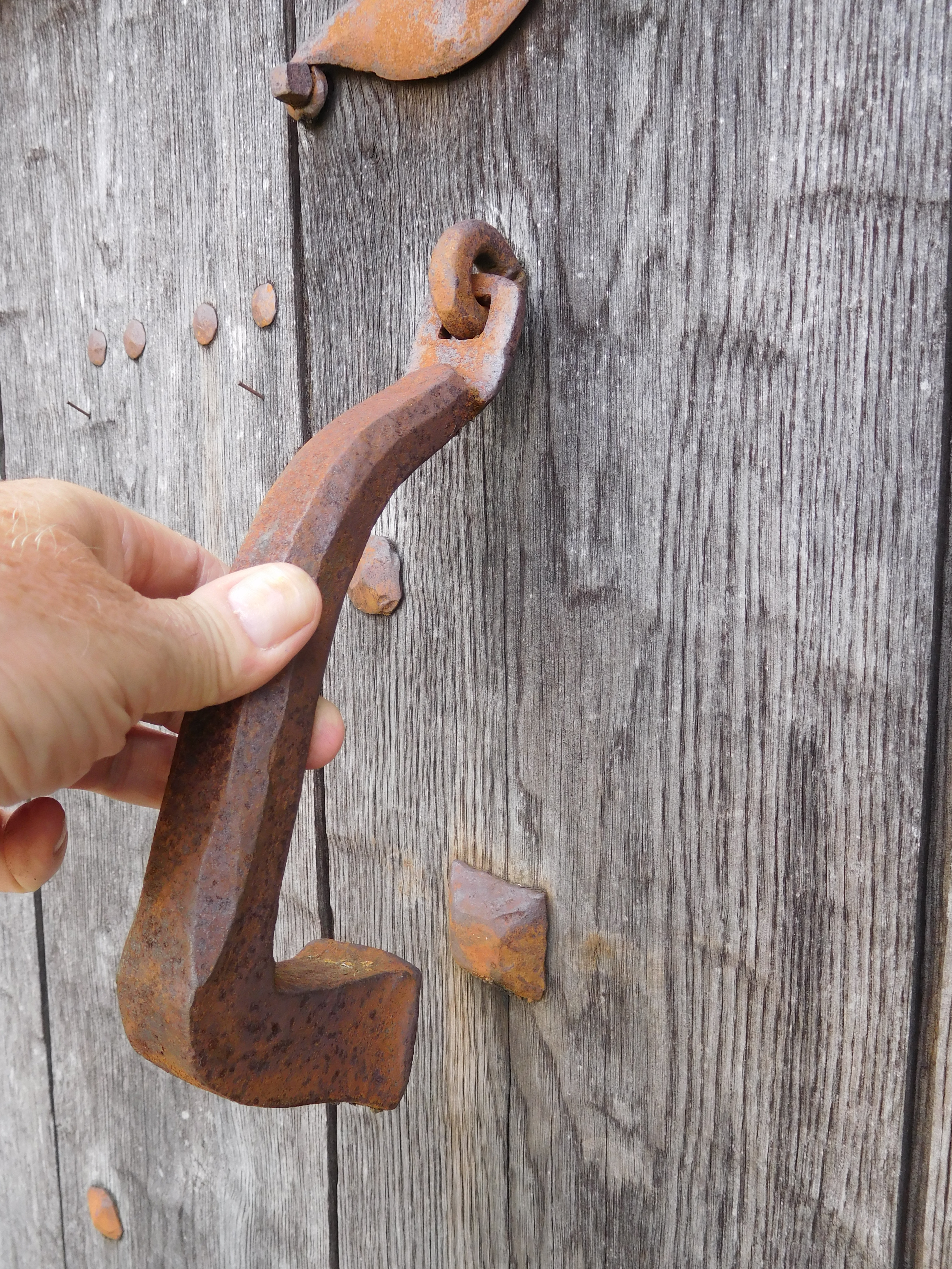 The simple door-knocker at the gate of the former Vauluisant abbey, in France